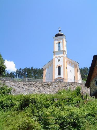 Srebrenica church